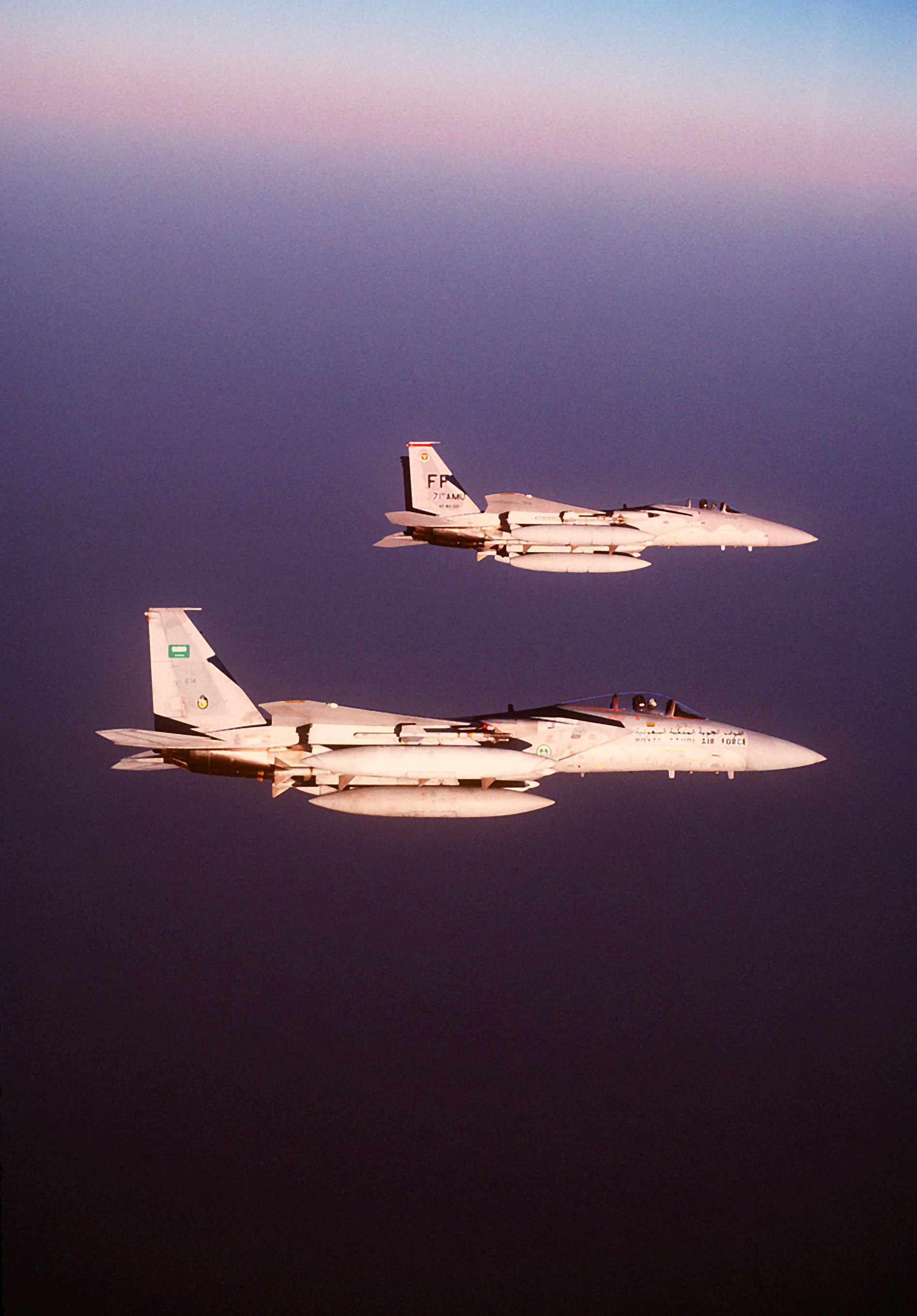 A 1st Tactical Fighter Wing F-15C Eagle aircraft and an F-15C of the 13th Squadron of the Saudi Arabian air force fly a combat patrol near the Iraqi border during Operation Desert Shield.